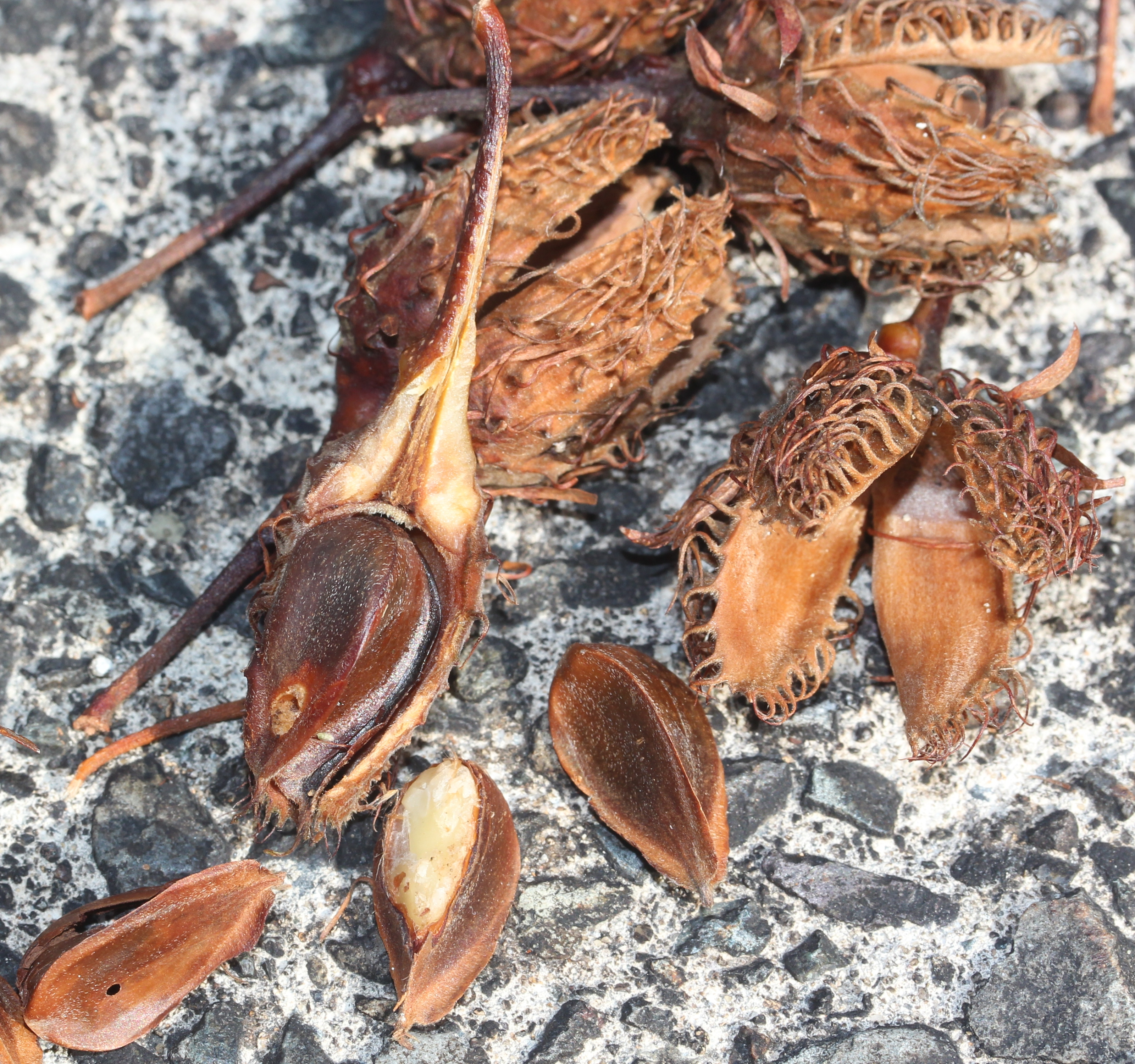 Fruits with two nuts of Fagus crenata, in Mount Kanmuri, Fukui prefecture, Japan.